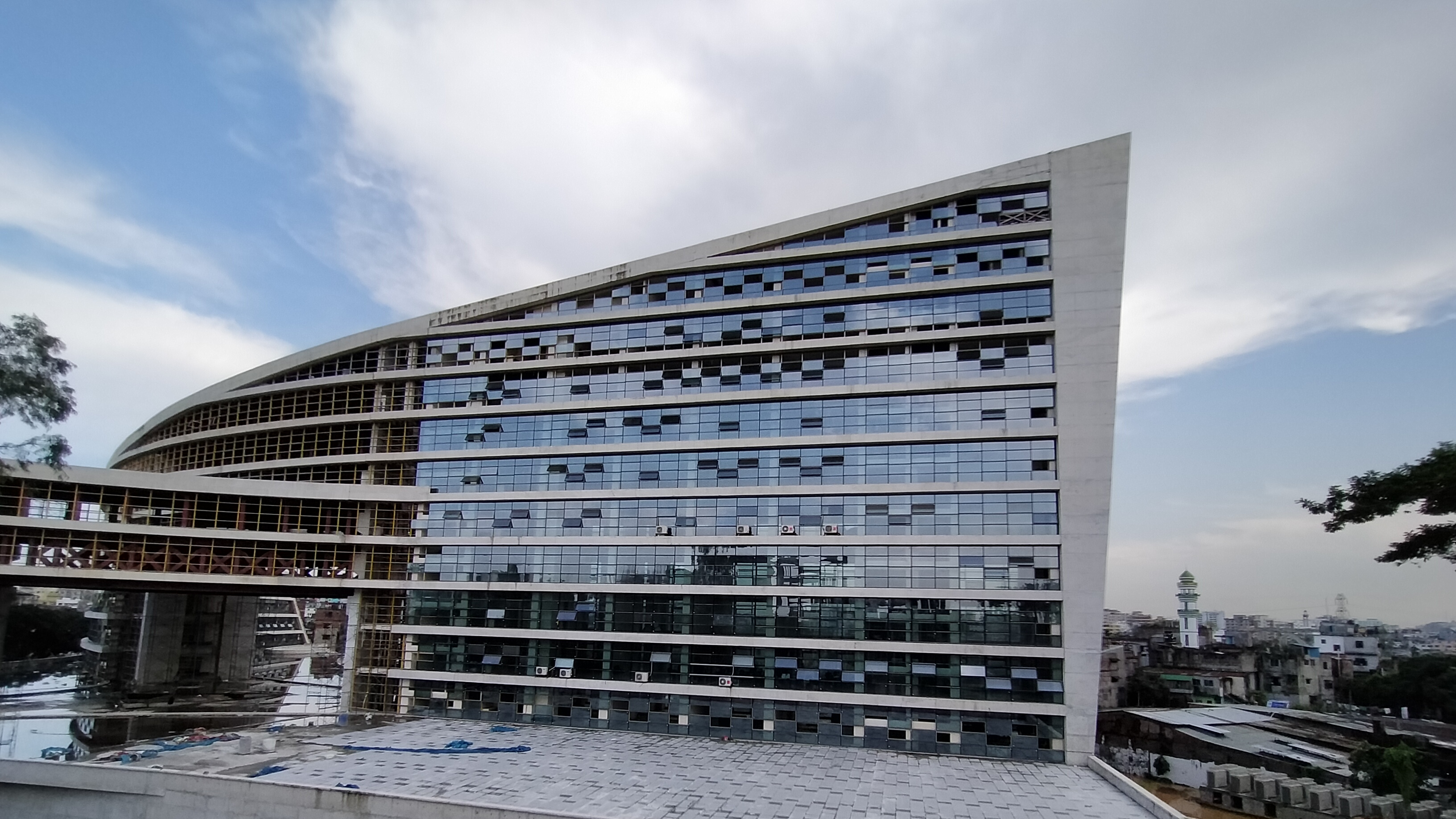 Head office of Roads and Highways Department under construction at South Kunipara, Tejgaon, Dhaka. ( 16.10.2019)